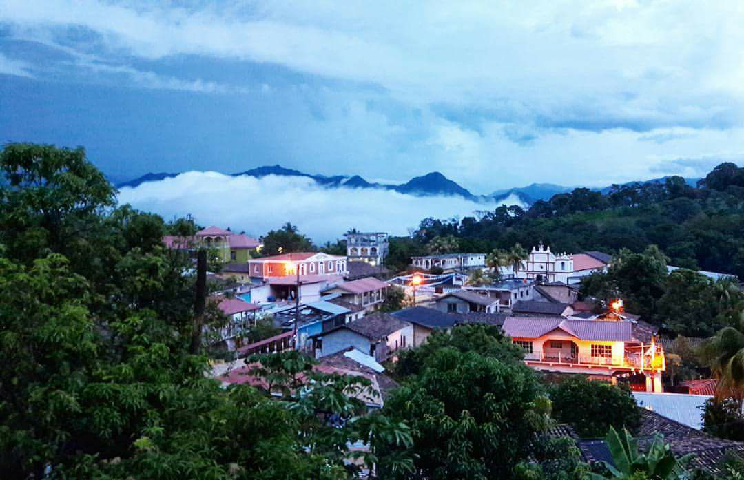 Pueblo Concepción intibuca